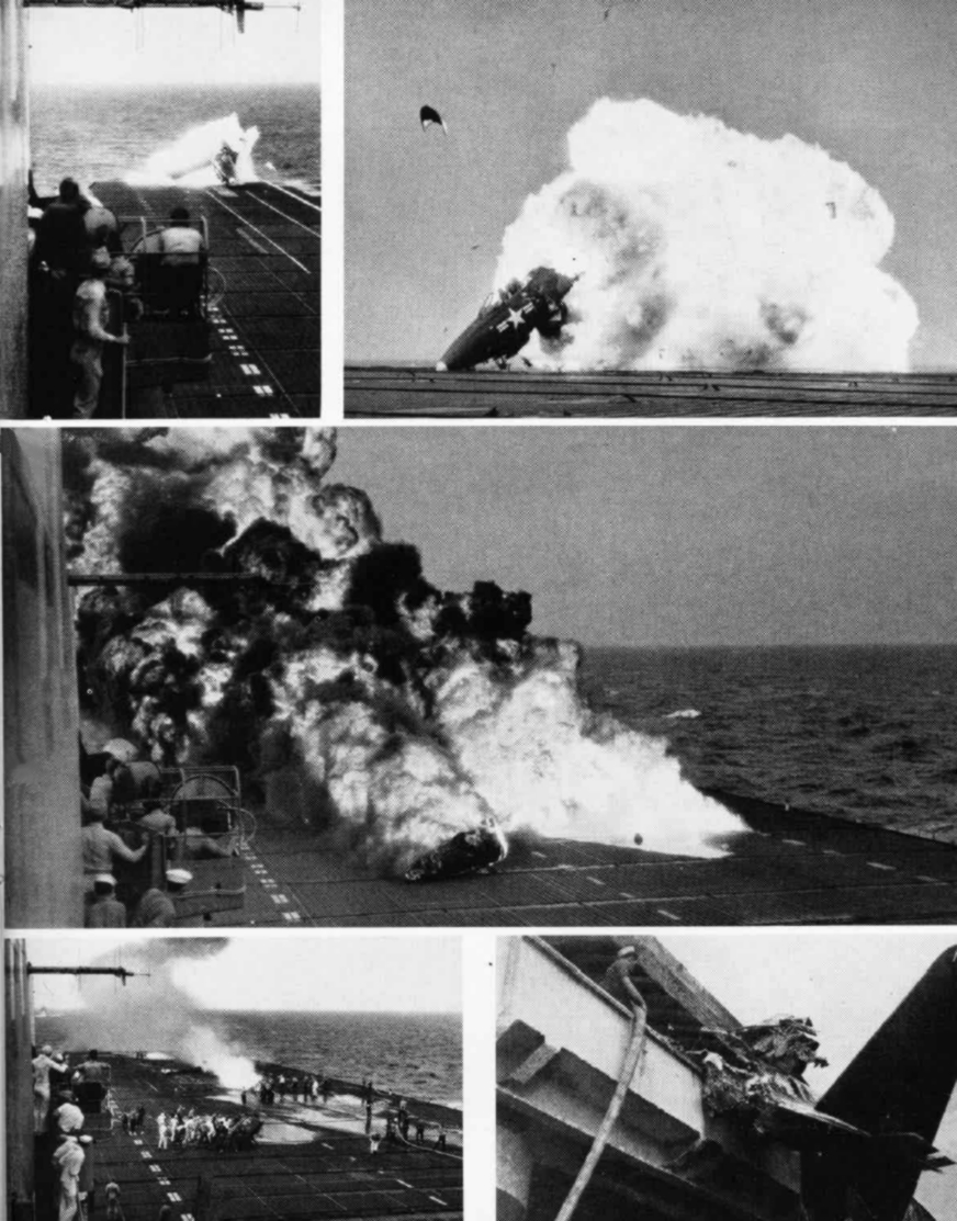 Series of photos of a ramp strike of a U.S. Navy Grumman F9F-2 Panther from the Naval Air Test Center aboard the aircraft carrier USS Midway (CVB-41) on 23 July 1951. Fortunately, on impact the cockpit section separated from the plane's fuselage and rolled forward on the flight deck saving the pilot, Cdr. George C. Duncan, from the fire. He only suffered minor injuries.